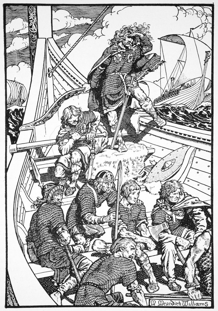 Harald Fairhead by Morris Meredith Williams (1913).